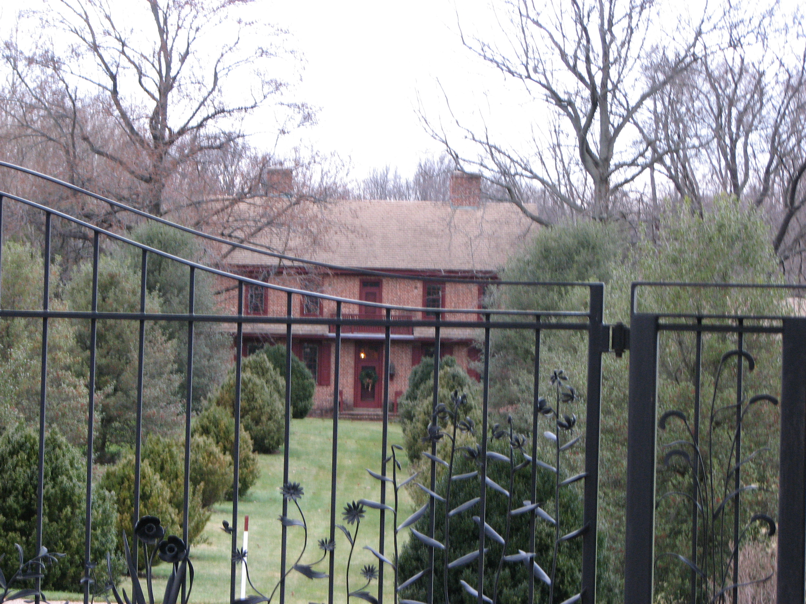 The William Peters House, a historic house in Mendenhall, Chester County, Pennsylvania.